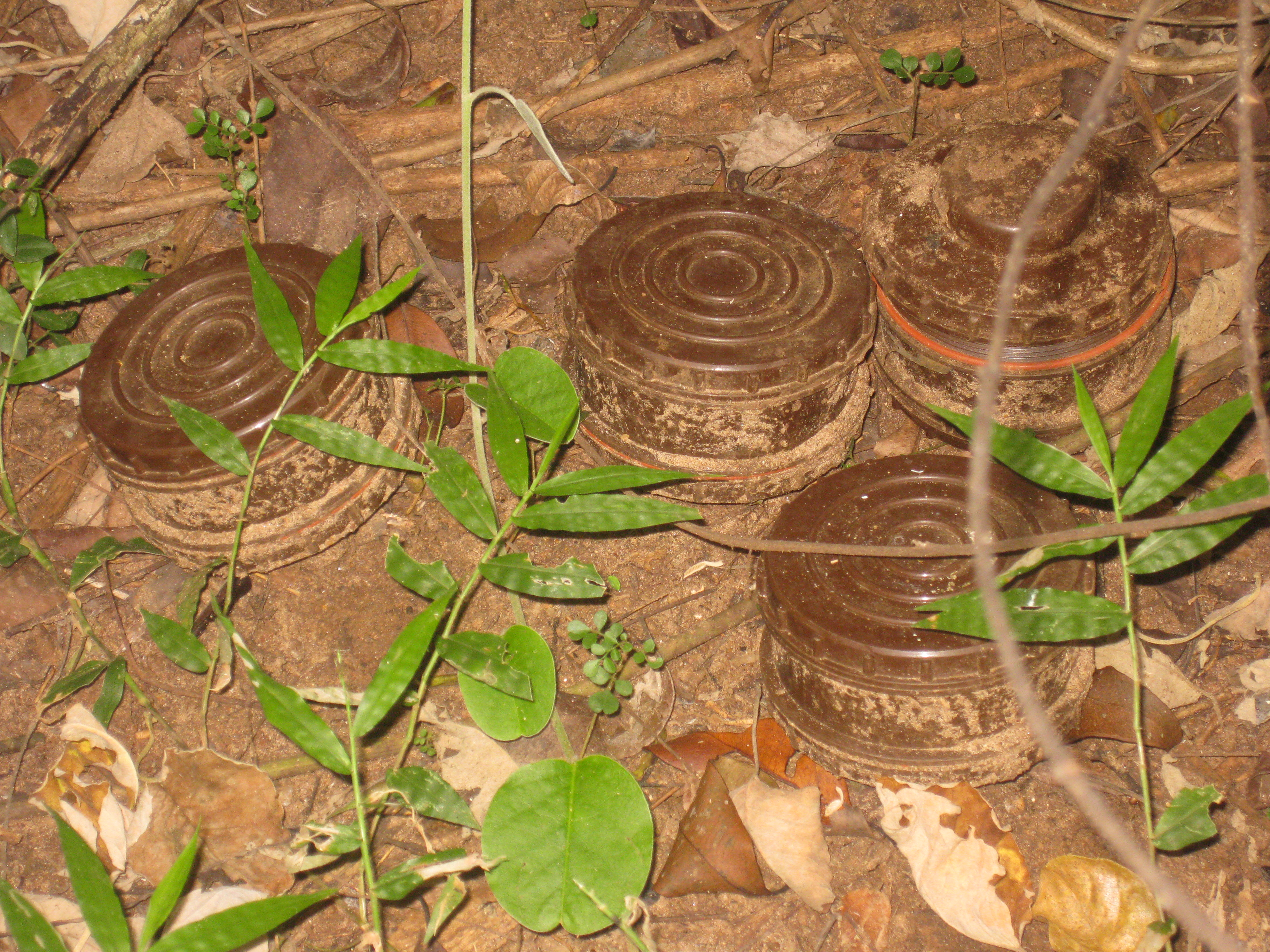 These are Jony Electic mines found by SHADE an organization which deals with Mine Risk Education in Vavuiya District, Sri Lanka.